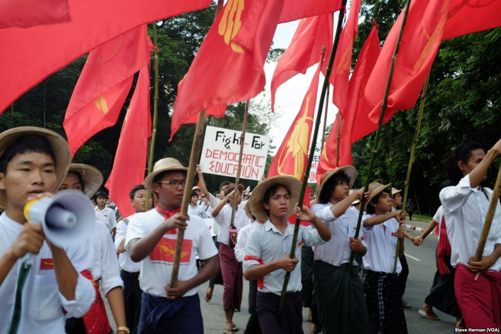 Students protests at Yangon University (14-16 Nov 2014).